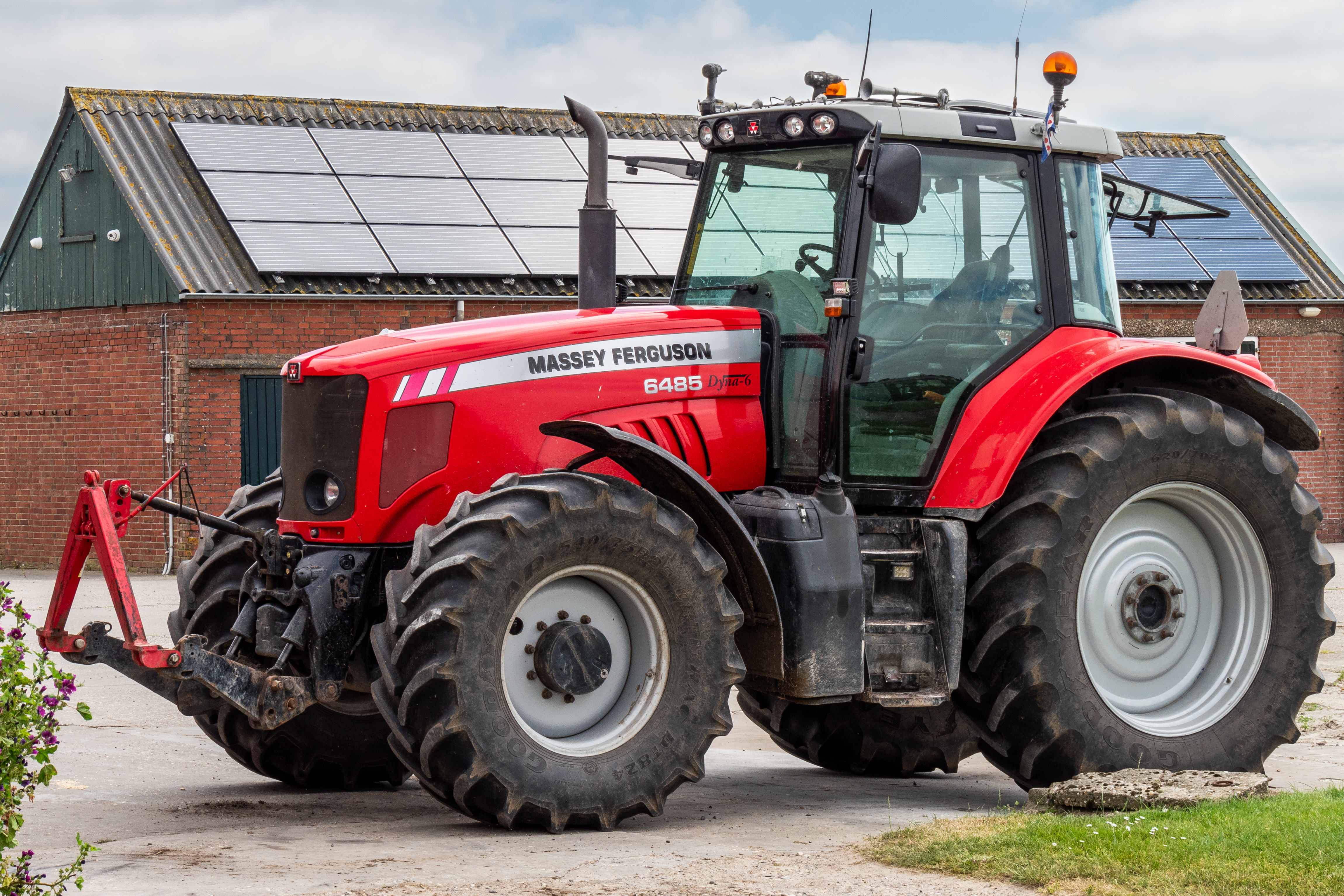 Massey Ferguson 6485 Dyna 6